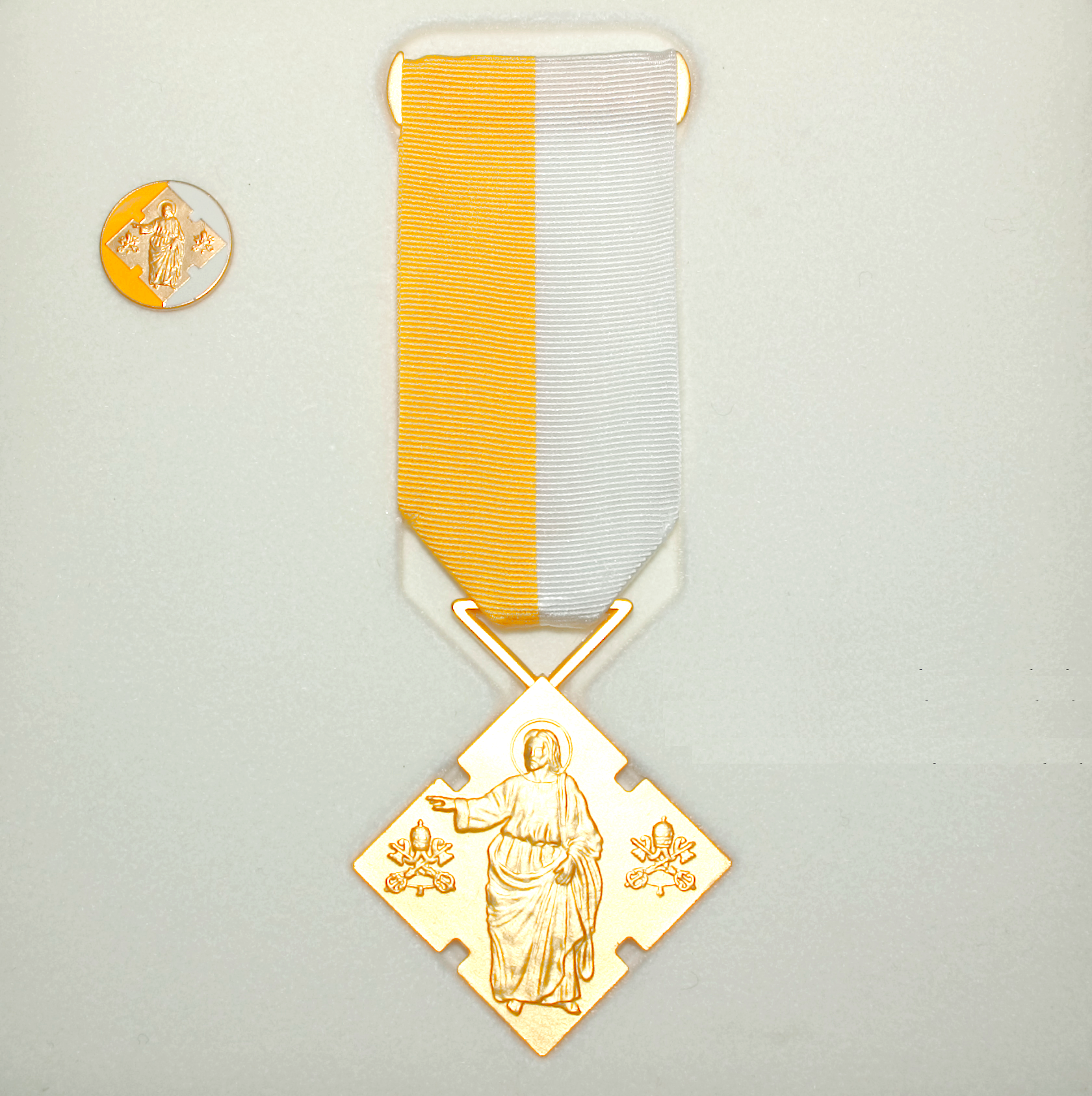 Photograph of the Benemerenti medal awarded to John Parnell Murphy